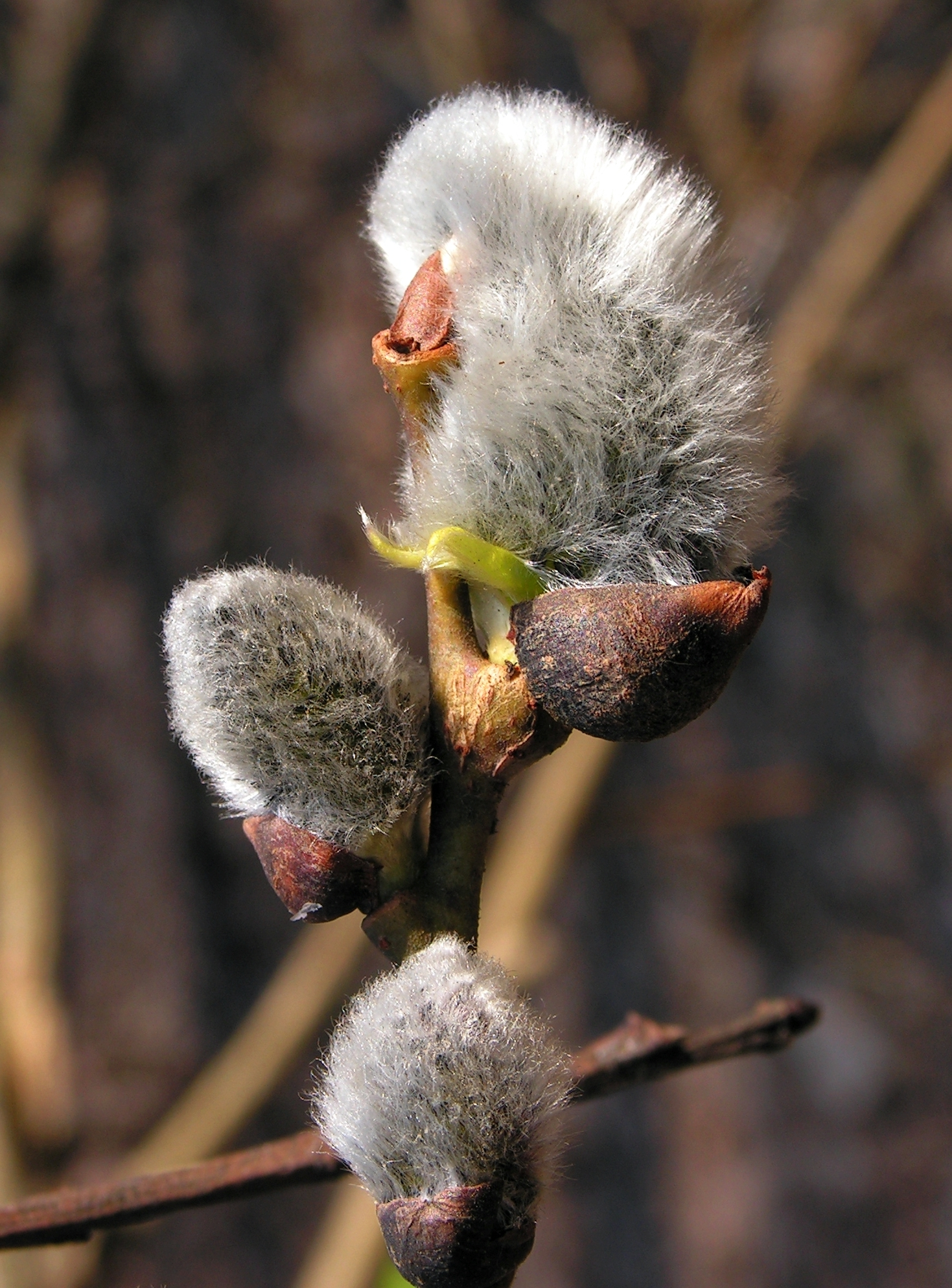 Young male inflorescences of Goat Willow. Moscow region, Russia.